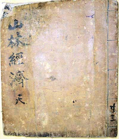 The Korean encyclopedia titled, "Sanrim.gyeongje (산림경제), literally "book on mountain and forest and economics) made in the early Joseon dynasty of Korea.